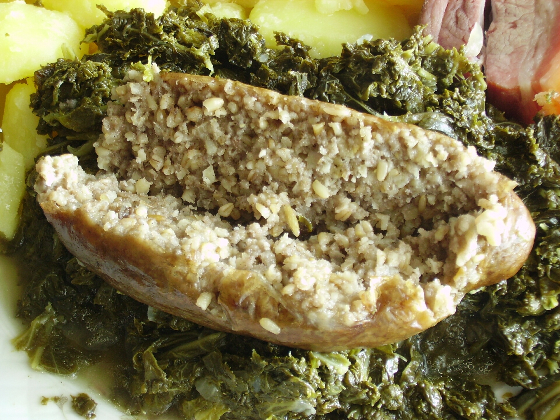 A typical meal of Northern Germany: kale (or borecole) with a grits sausage